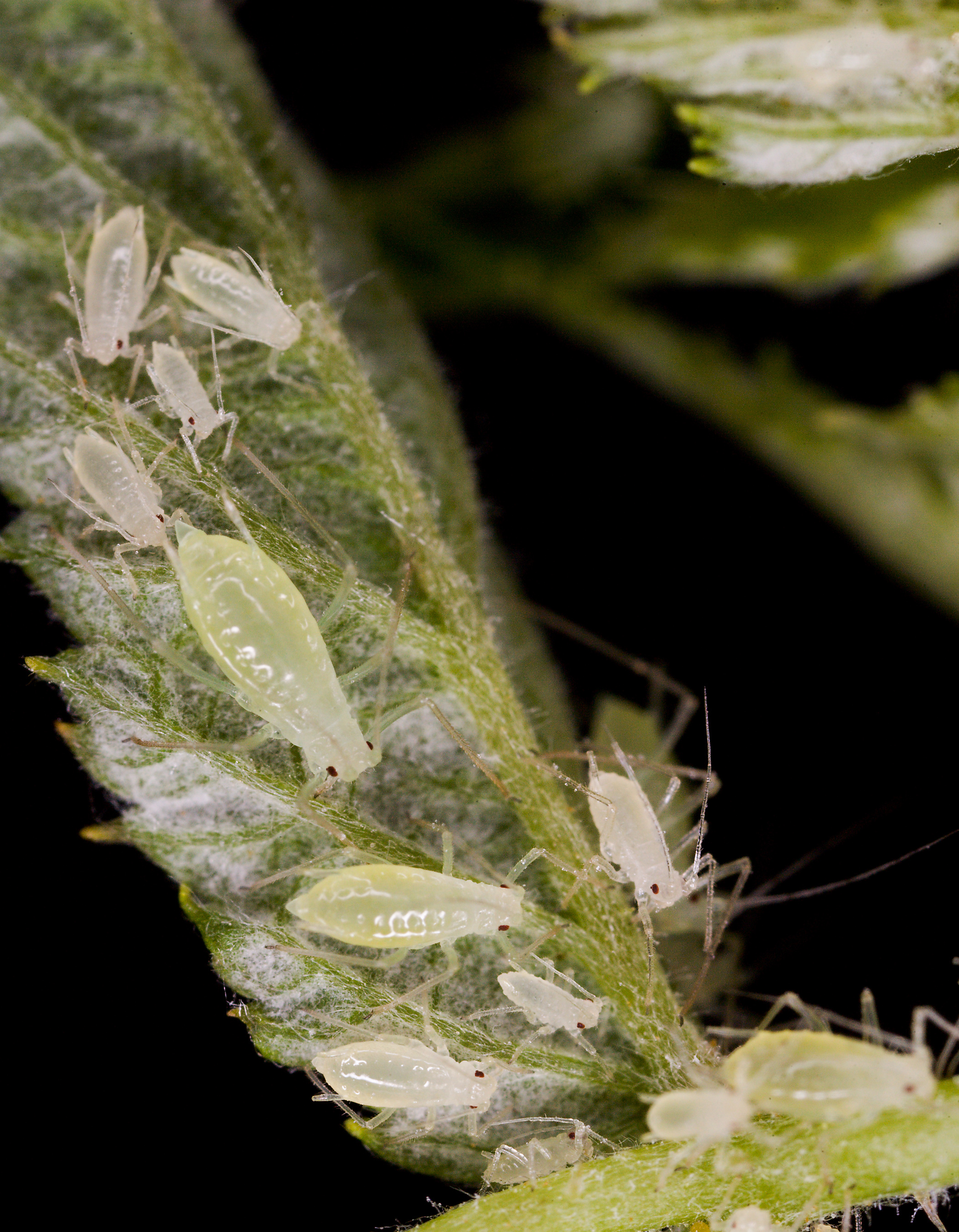 Raspberry aphids (Amphorophora agathonica) feeding on black raspberry plants on Aug. 29, 2007. This pest is a major culprit in spreading the black raspberry necrosis virus and raspberry mottle virus in North America. USDA photo by Stephen Ausmus.